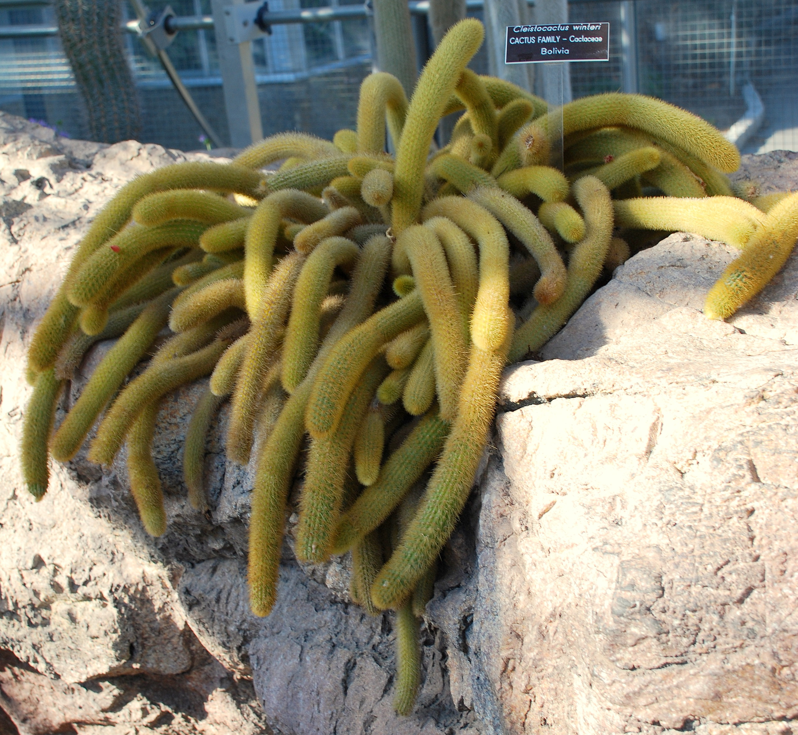 Picture of Cleistocactus winteri in the United States Botanic Garden